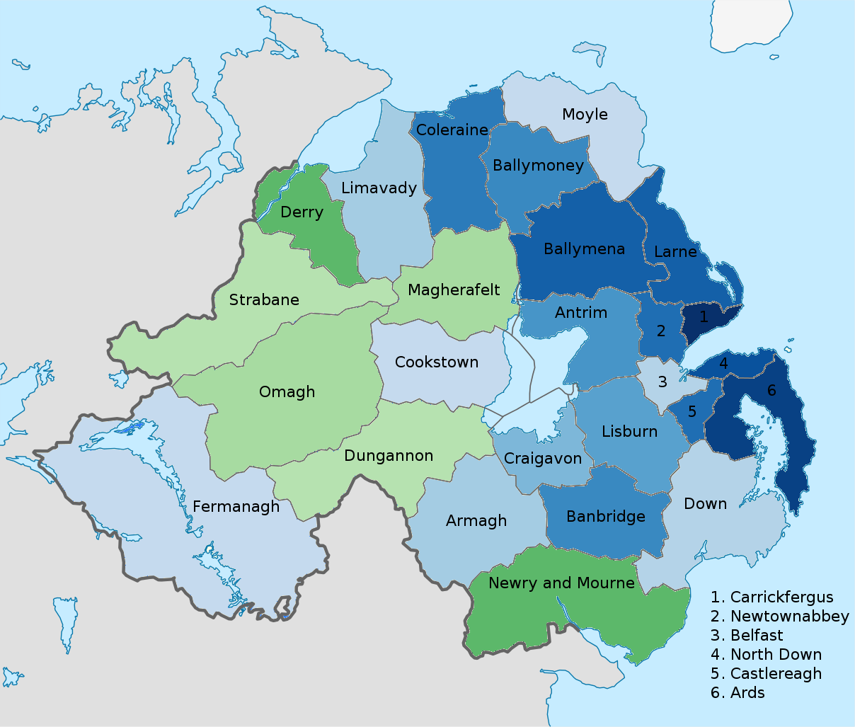 A map of Northern Ireland districts colour coded according to the difference between the percentage of people stating they were British and the percentage of people stating they were Irish in the 2011 census. Legend: 70% to 75% more Irish than British 65% to 70% more Irish than British 60% to 65% more Irish than British 55% to 60% more Irish than British 50% to 55% more Irish than British 45% to 50% more Irish than British 40% to 45% more Irish than British 35% to 45% more Irish than British 30% to 35% more Irish than British 25% to 30% more Irish than British 20% to 25% more Irish than British 15% to 20% more Irish than British 10% to 15% more Irish than British 5% to 10% more Irish than British 0% to 5% more Irish than British 0% to 5% more British than Irish 5% to 10% more British than Irish 10% to 15% more British than Irish 15% to 20% more British than Irish 20% to 25% more British than Irish 25% to 30% more British than Irish 30% to 35% more British than Irish 35% to 40% more British than Irish 40% to 45% more British than Irish 45% to 50% more British than Irish 50% to 55% more British than Irish 55% to 60% more British than Irish 60% to 65% more British than Irish 65% to 70% more British than Irish 70% to 75% more British than Irish